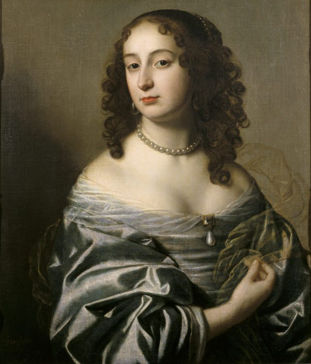 Electress Sophia, Princess Palatine, consort of Ernest Augustus, Elector of Hanover (1630–1714)